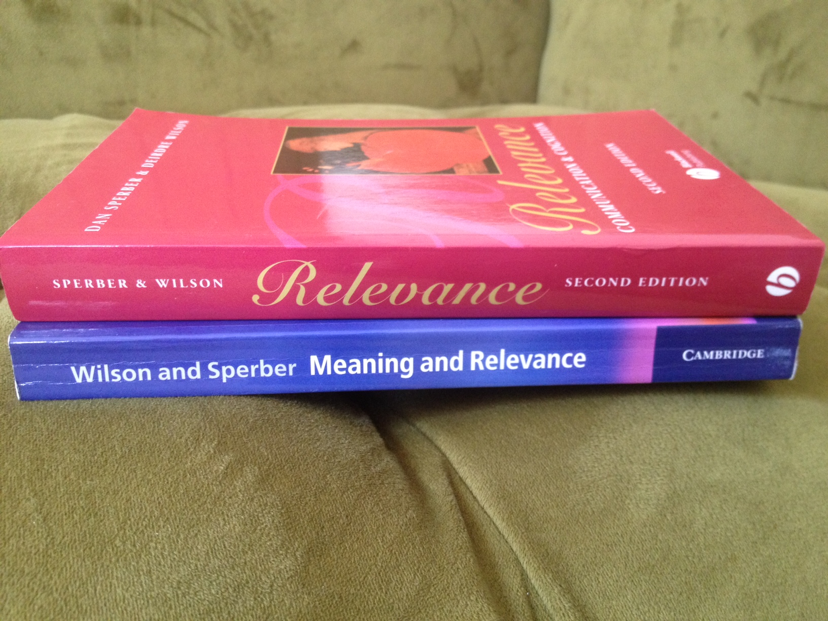 Books published by Deirdre Wilson.